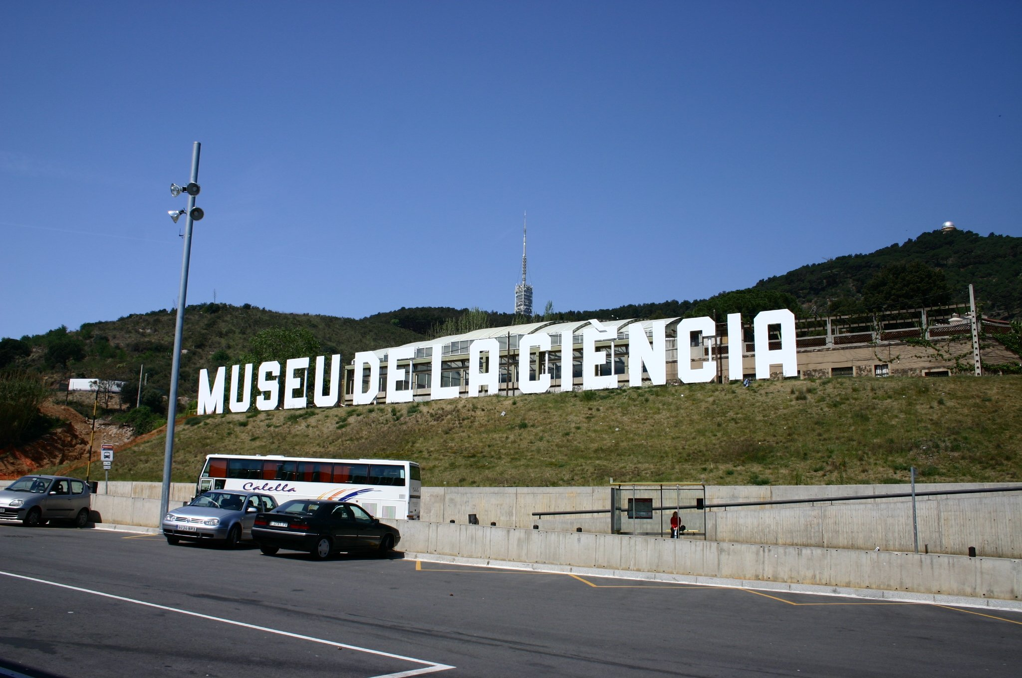 CosmoCaixa Barcelona